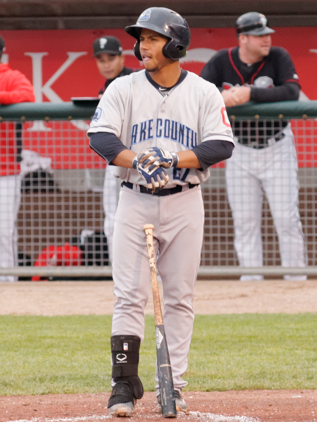 Francisco Mejia bats for the Lake County Captains during a 2016 game in Lansing, Michigan